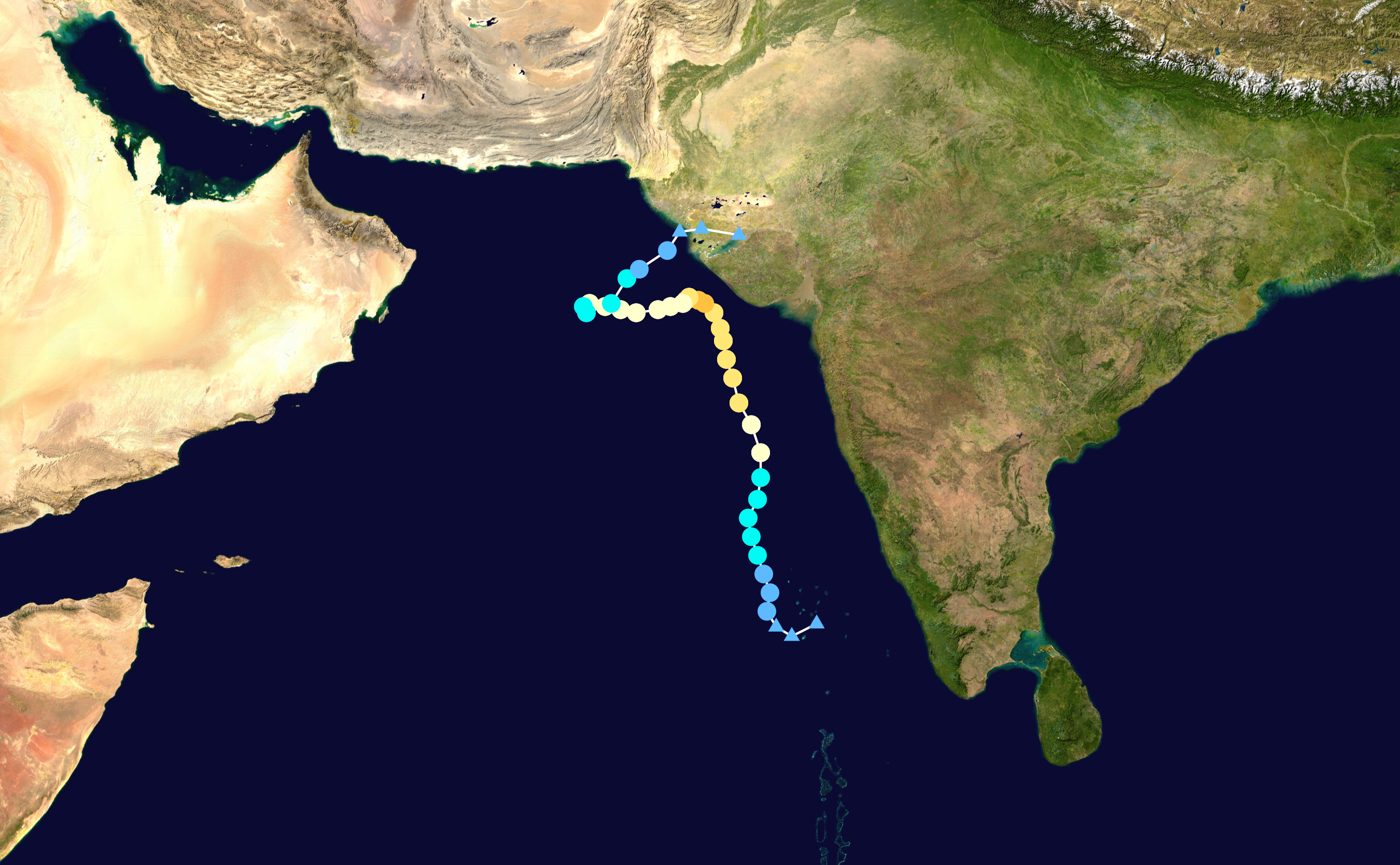 Track map of Very Severe Cyclonic Storm Vayu of the 2019 North Indian Ocean cyclone season. The points show the location of the storm at 6-hour intervals. The colour represents the storm's maximum sustained wind speeds as classified in the Saffir–Simpson scale (see below), and the shape of the data points represent the nature of the storm, according to the legend below. Saffir–Simpson scale Tropical depression≤38 mph≤62 km/h Category 3111–129 mph178–208 km/h Tropical storm39–73 mph63–118 km/h Category 4130–156 mph209–251 km/h Category 174–95 mph119–153 km/h Category 5≥157 mph≥252 km/h Category 296–110 mph154–177 km/h Unknown Storm type Tropical cyclone Subtropical cyclone Extratropical cyclone / Remnant low / Tropical disturbance